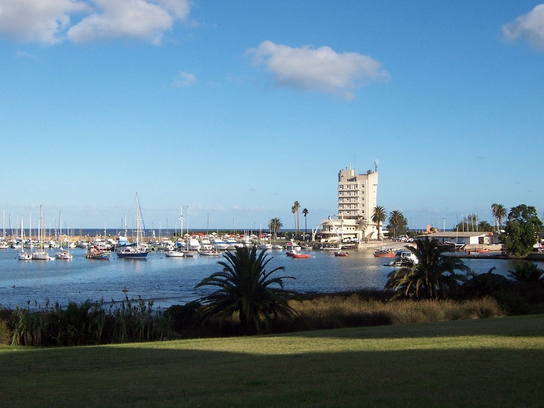 The Port and Yacht Club of Buceo, Montevideo, Uruguay.